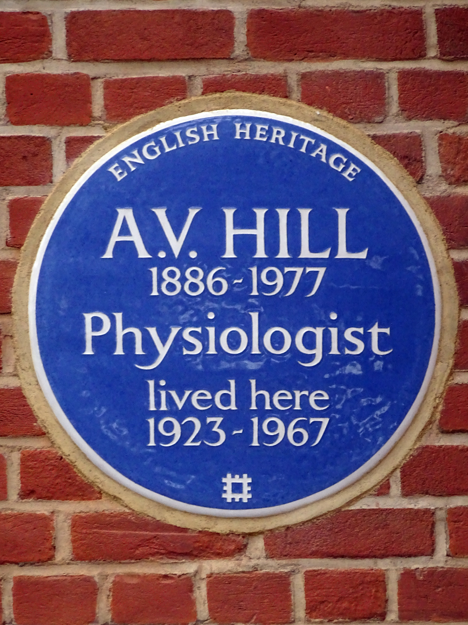 Blue plaque erected in 2015 by English Heritage at 16 Bishopswood Road, Highgate, London N6 4NY, London Borough of Haringey